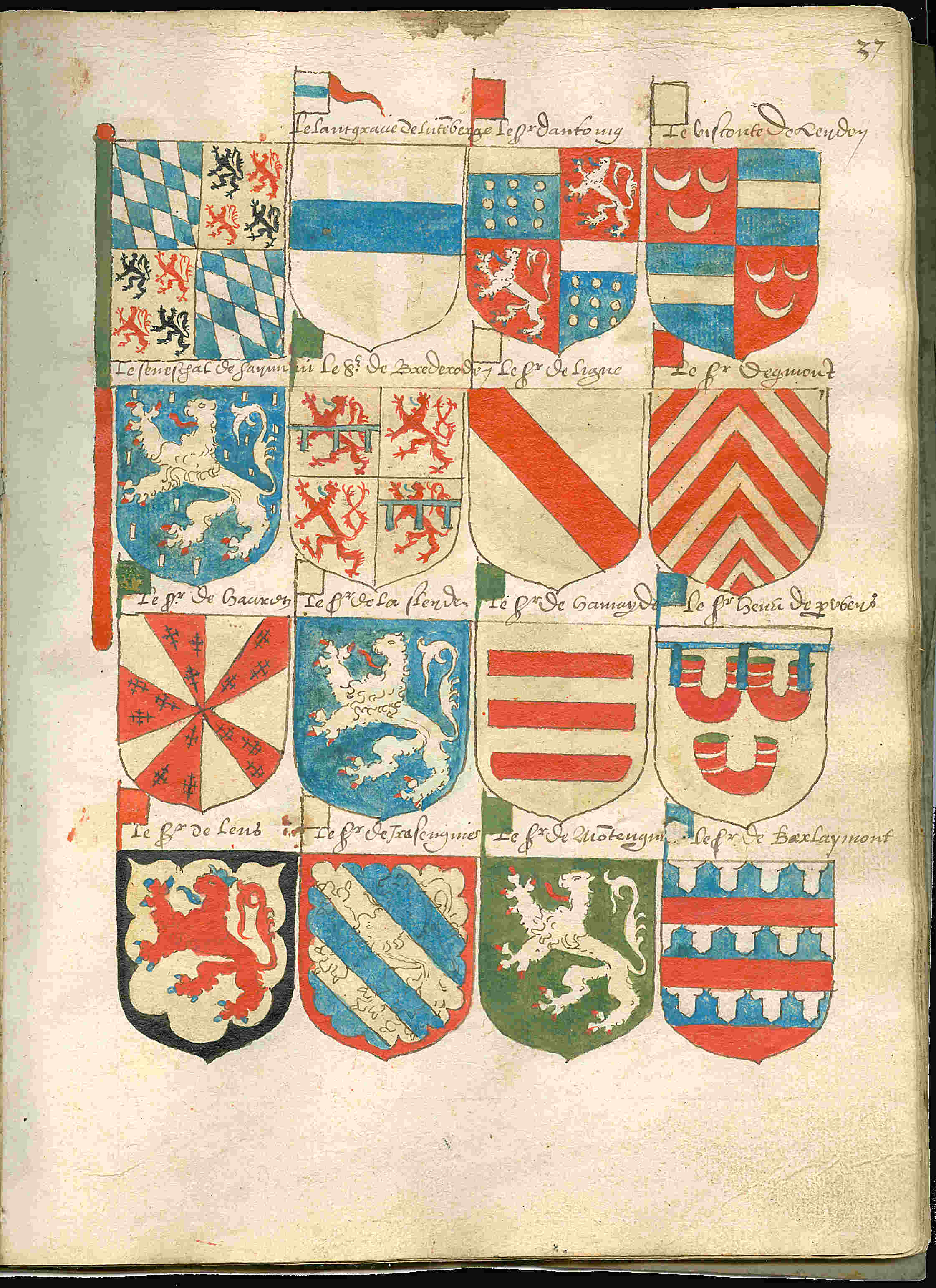 Page 37 from a copy of the Beyeren armorial / Wapenboek Beyeren from ca. 1600. The original Beyeren armorial from 1405 can be viewed at the website of the KB